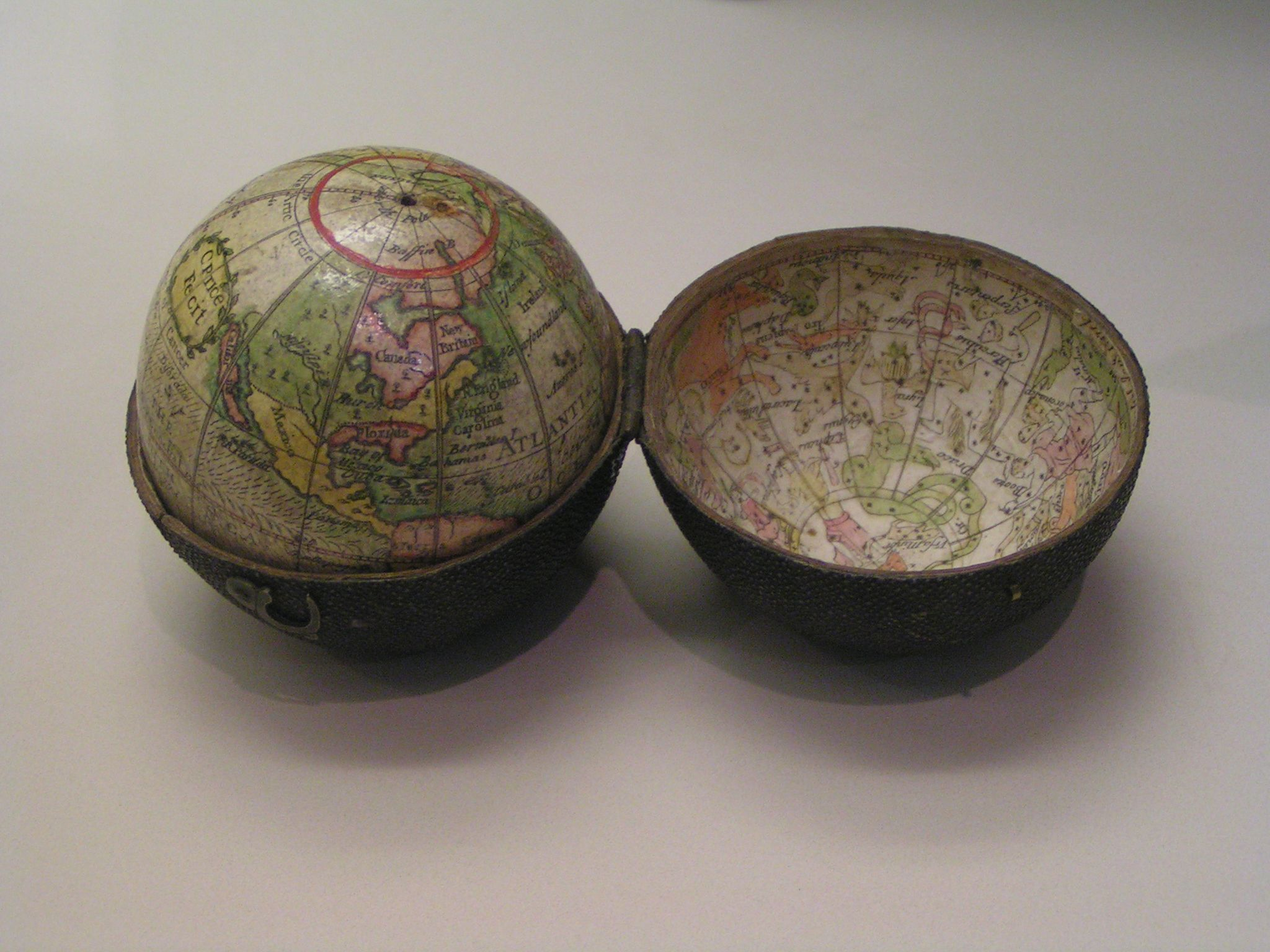 Pocket Globe, Science Museum London, This example was made by Charles Price in 1716.